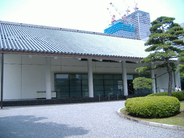 Sannomaru-Shozokan(Museum of the Imperial Collections)